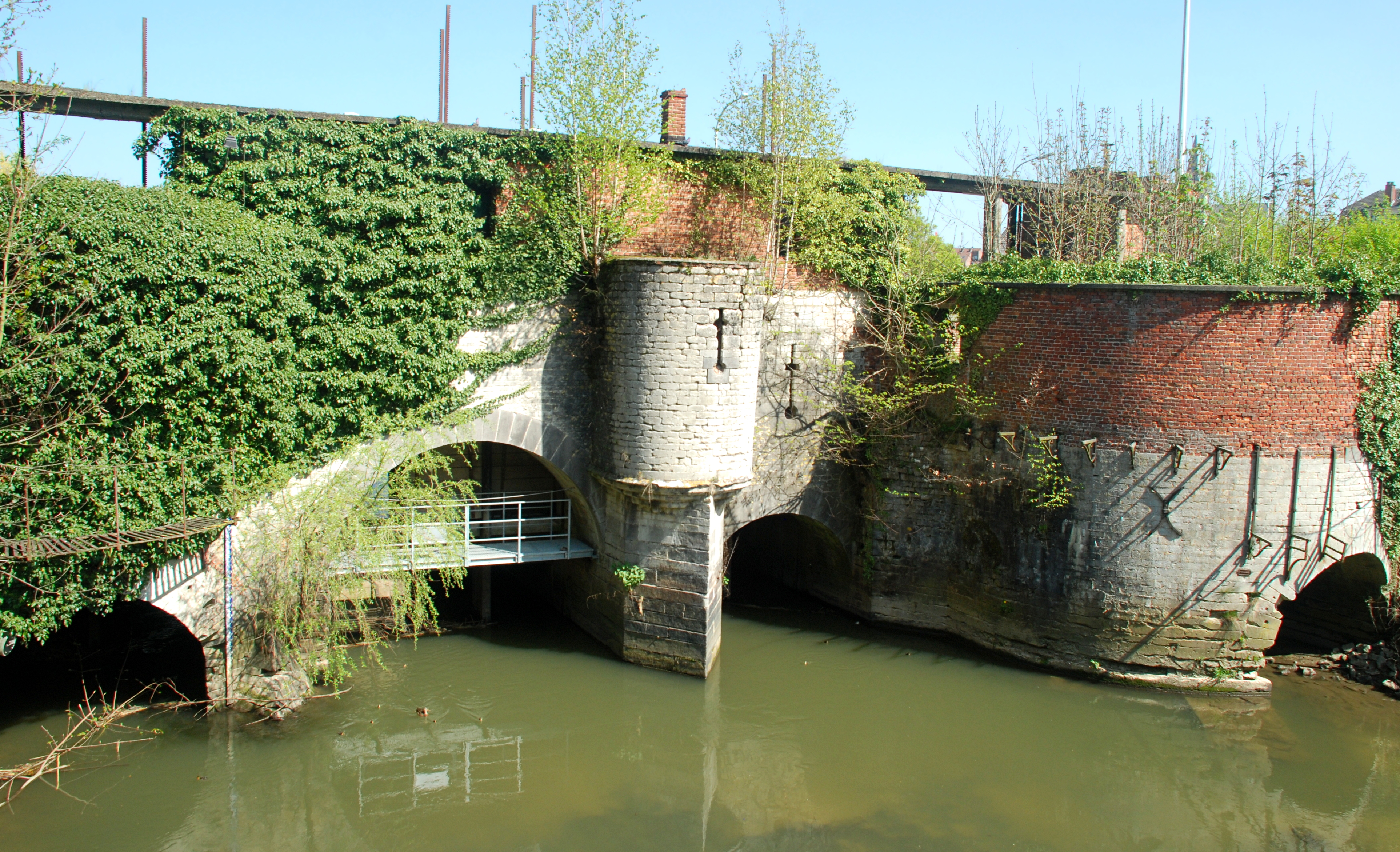 Belgium - Leuven - great lock (Grote Spui)